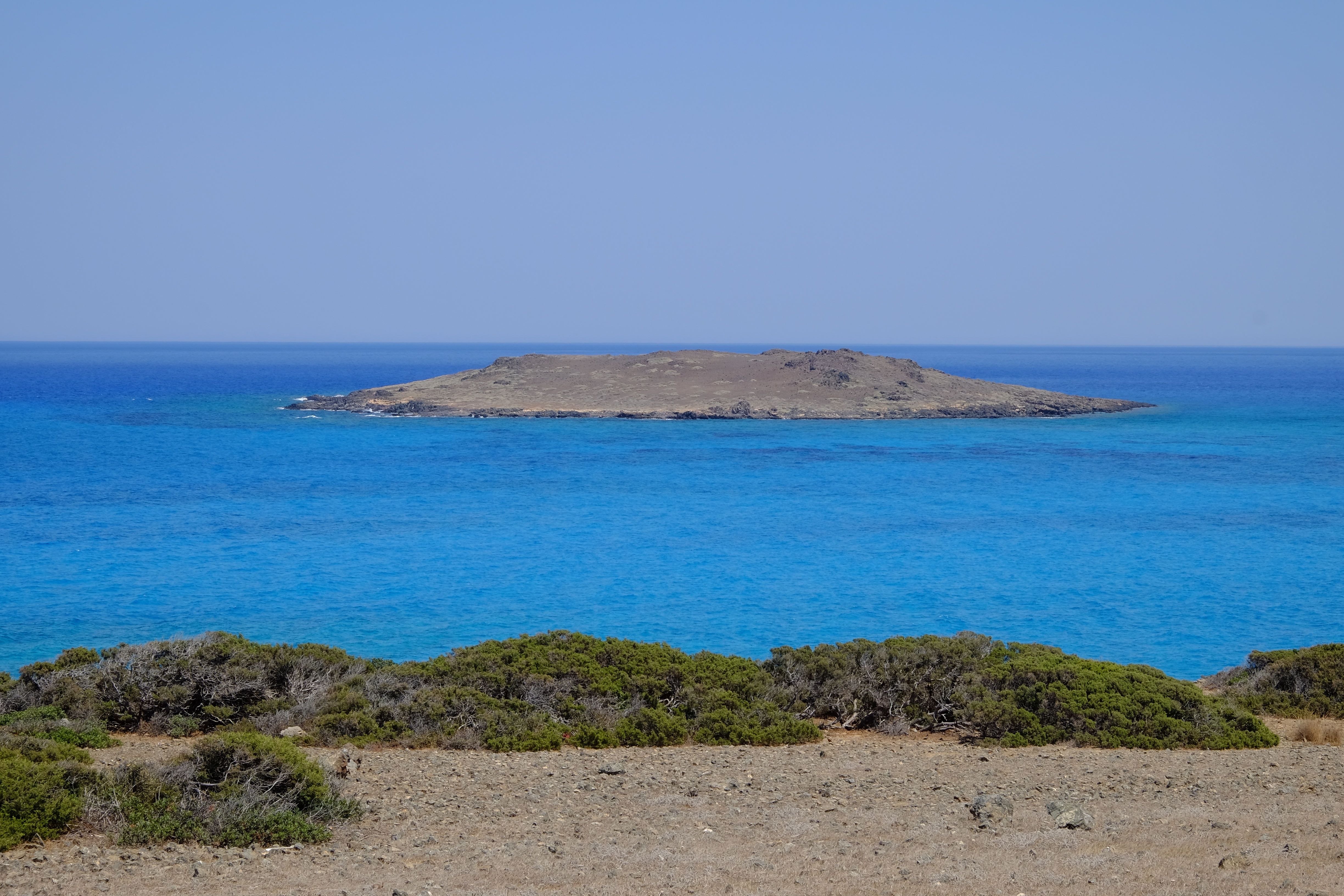 The small island of Mikronisi, seen from Kefala, the highest point of the island of Chrysi, south of Crete close to Ierapetra, in the Libyan Sea.